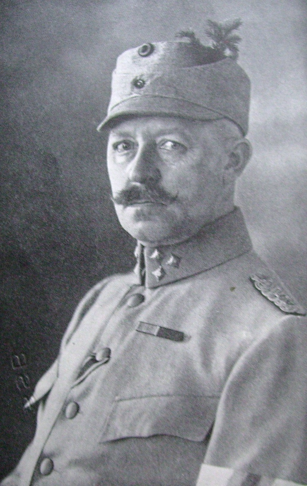 Picture of Harald Hjalmarson, Swedish military person